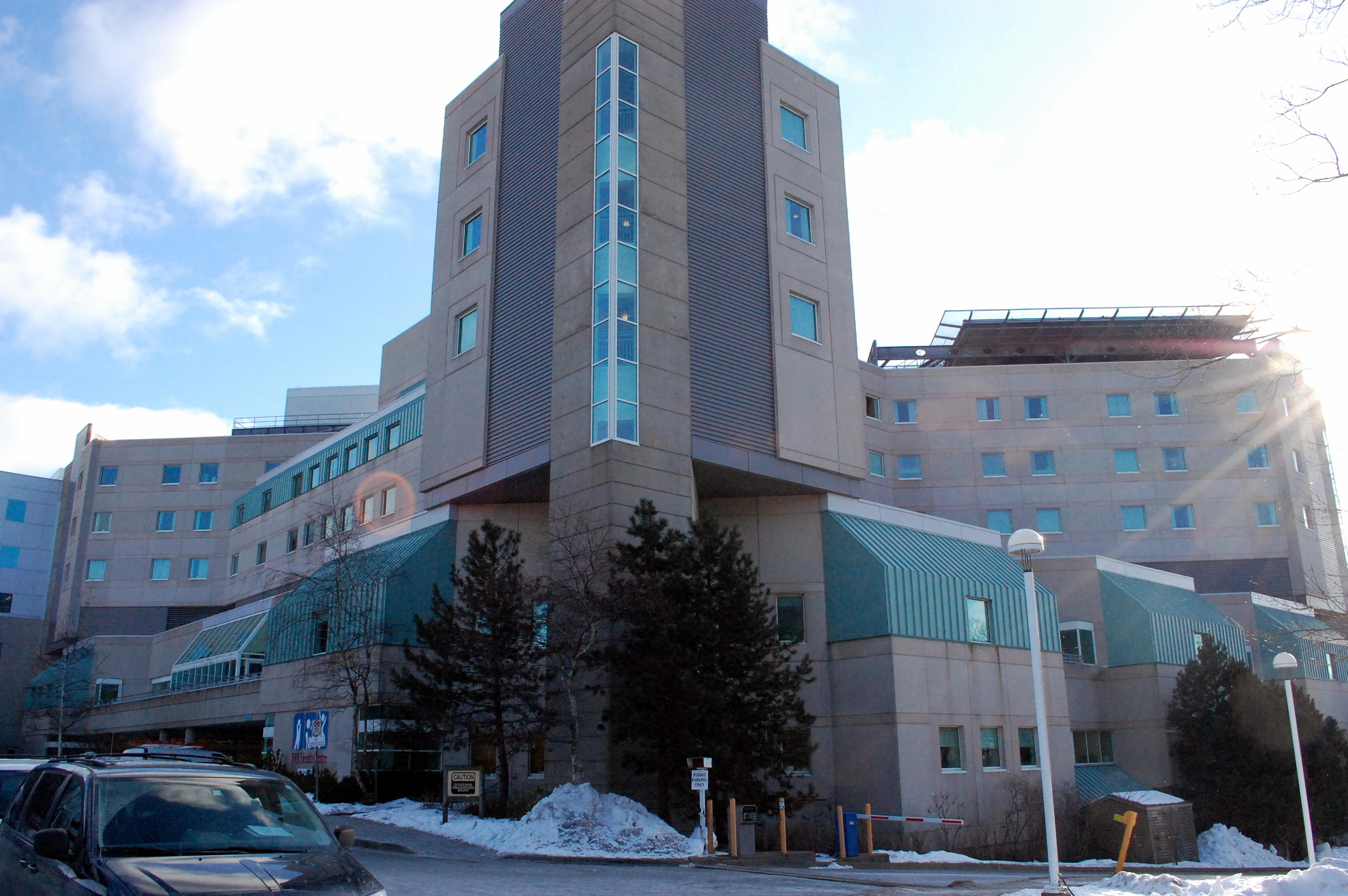 The early-1990s wing of the IWK Health Centre, now known as the "women's site" of the hospital.